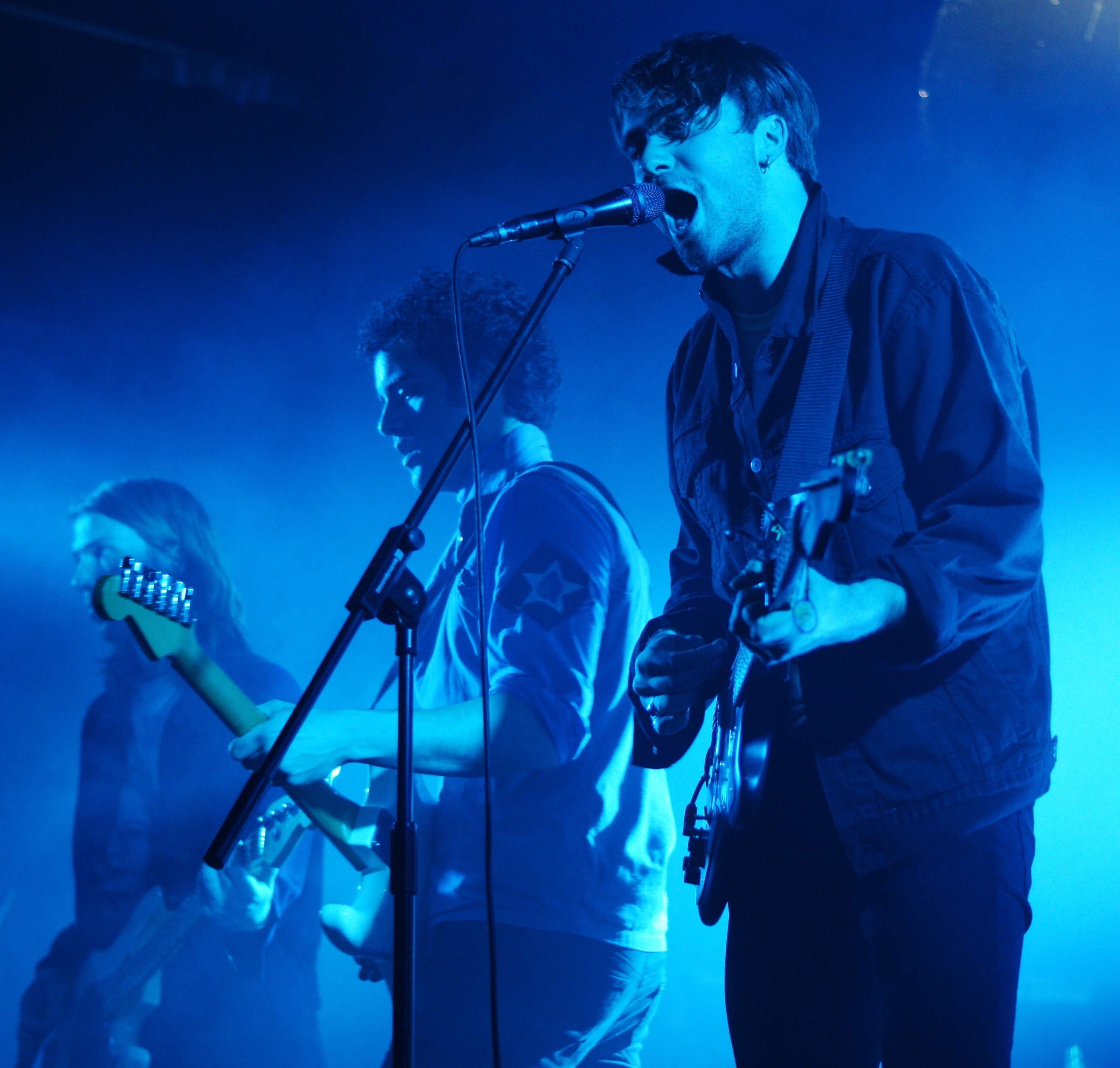 The Vaccines live at the Ritz Ballroom, Manchester, on Sunday the 3rd of April 2011